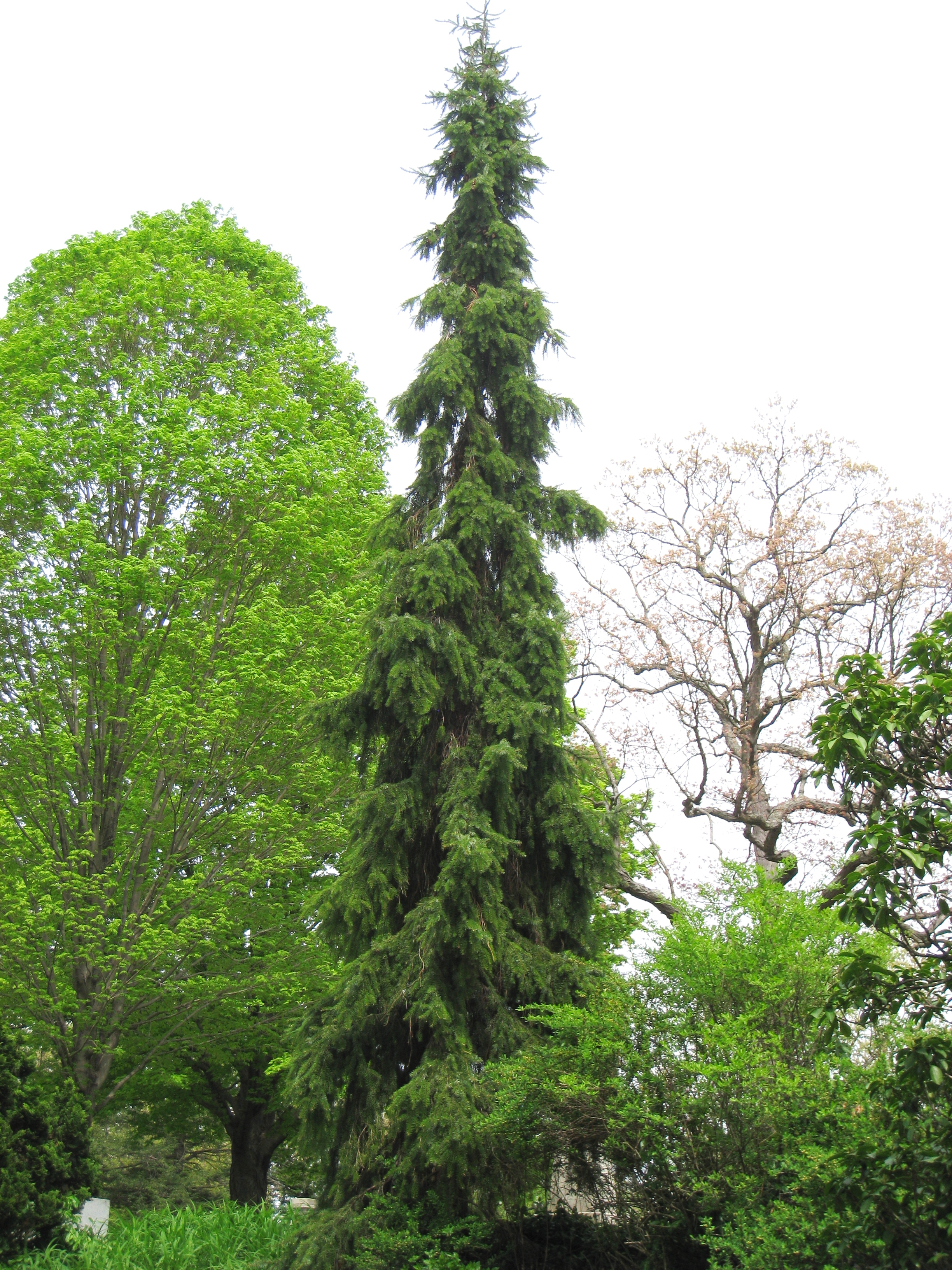 Picea omorika 'pendula' - specimen in Mount Auburn Cemetery, Cambridge, Massachusetts, USA.